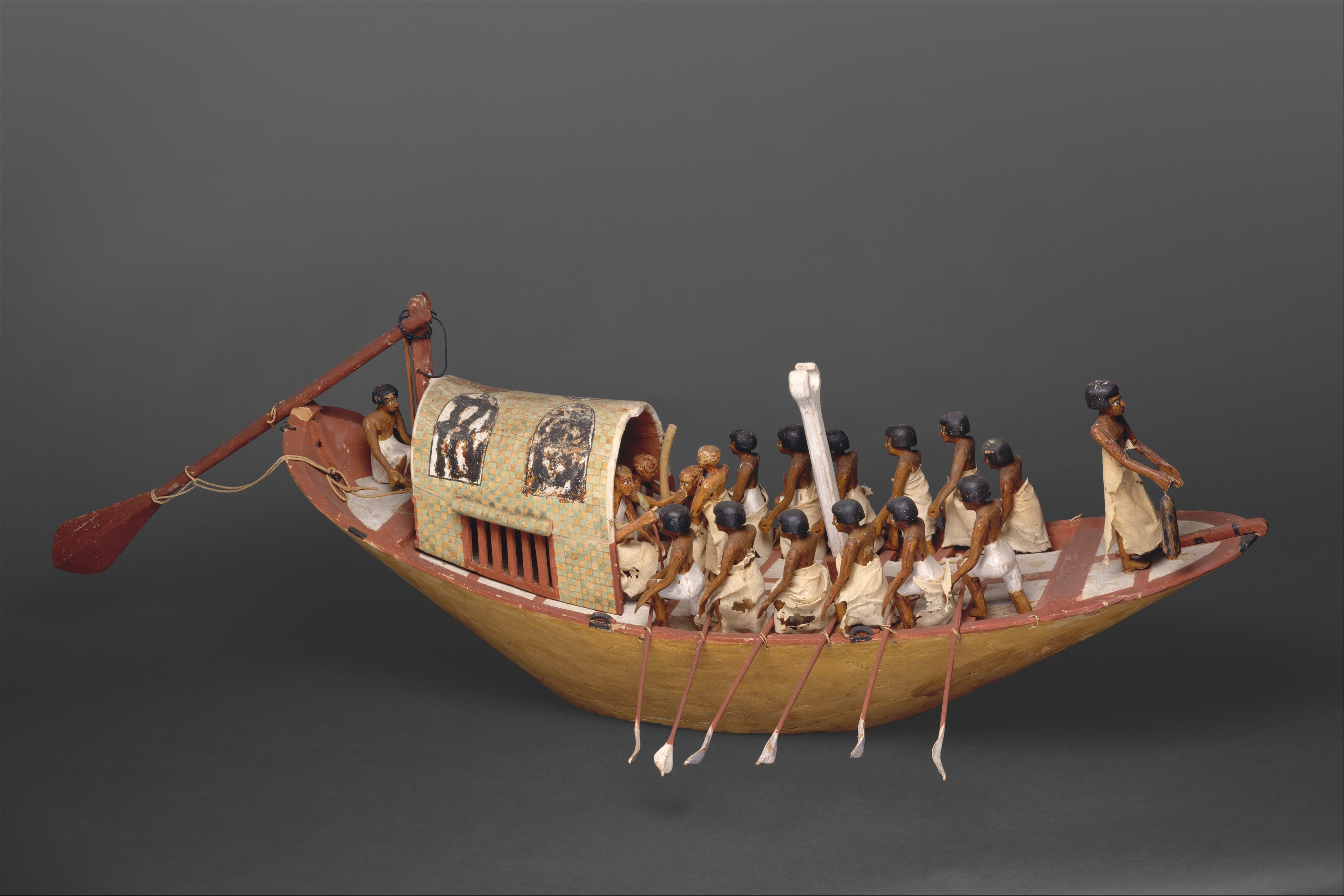 Travelling boat, Meketre